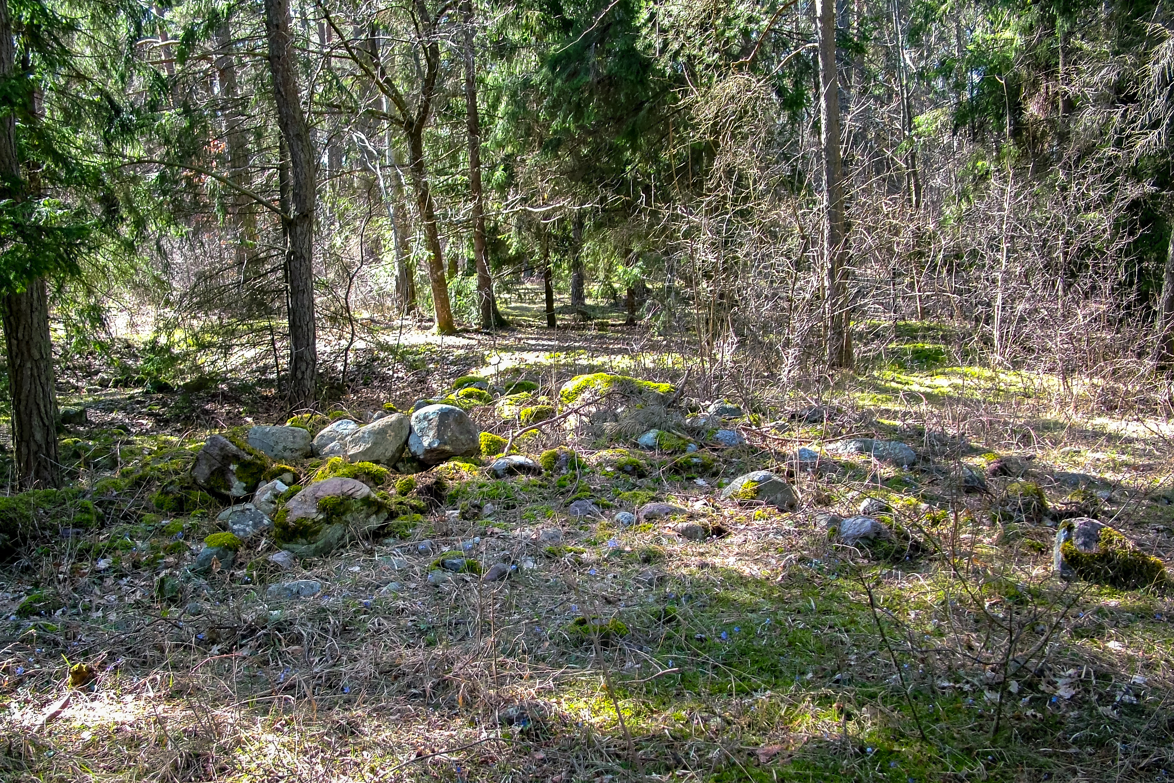 Lilla Bjärs grave field at Stenkyrka, Gotland, Sweden